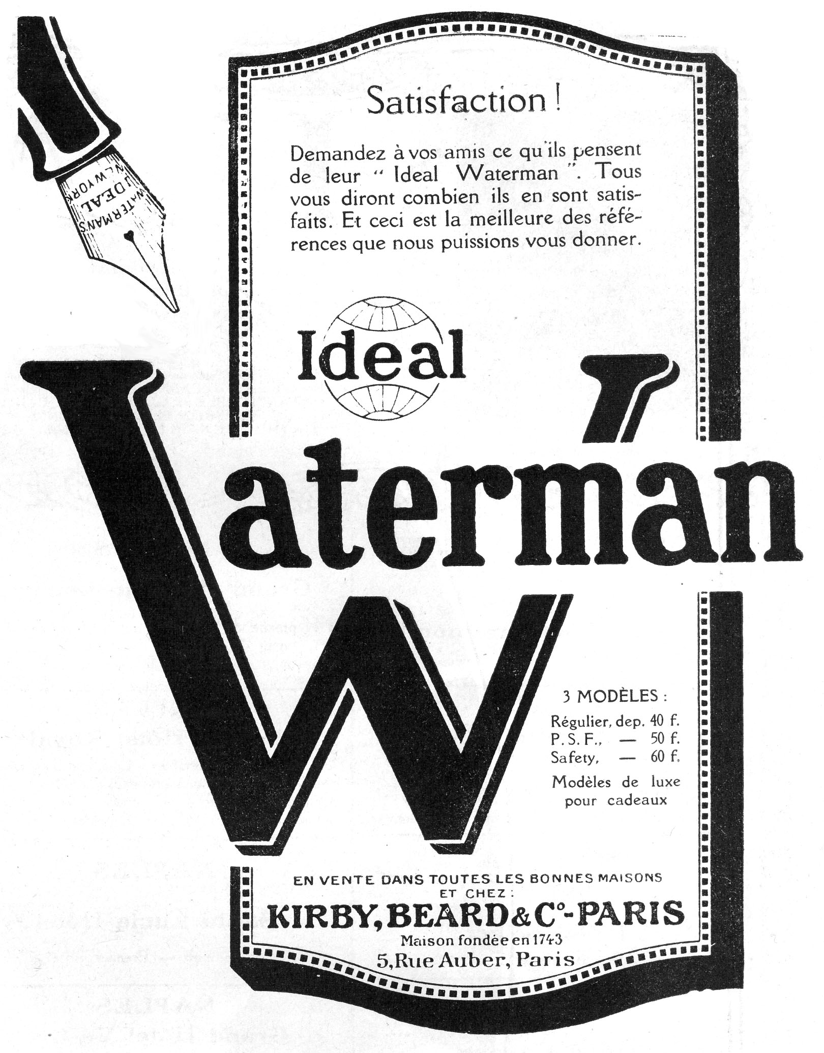 Waterman advertisement of 1923